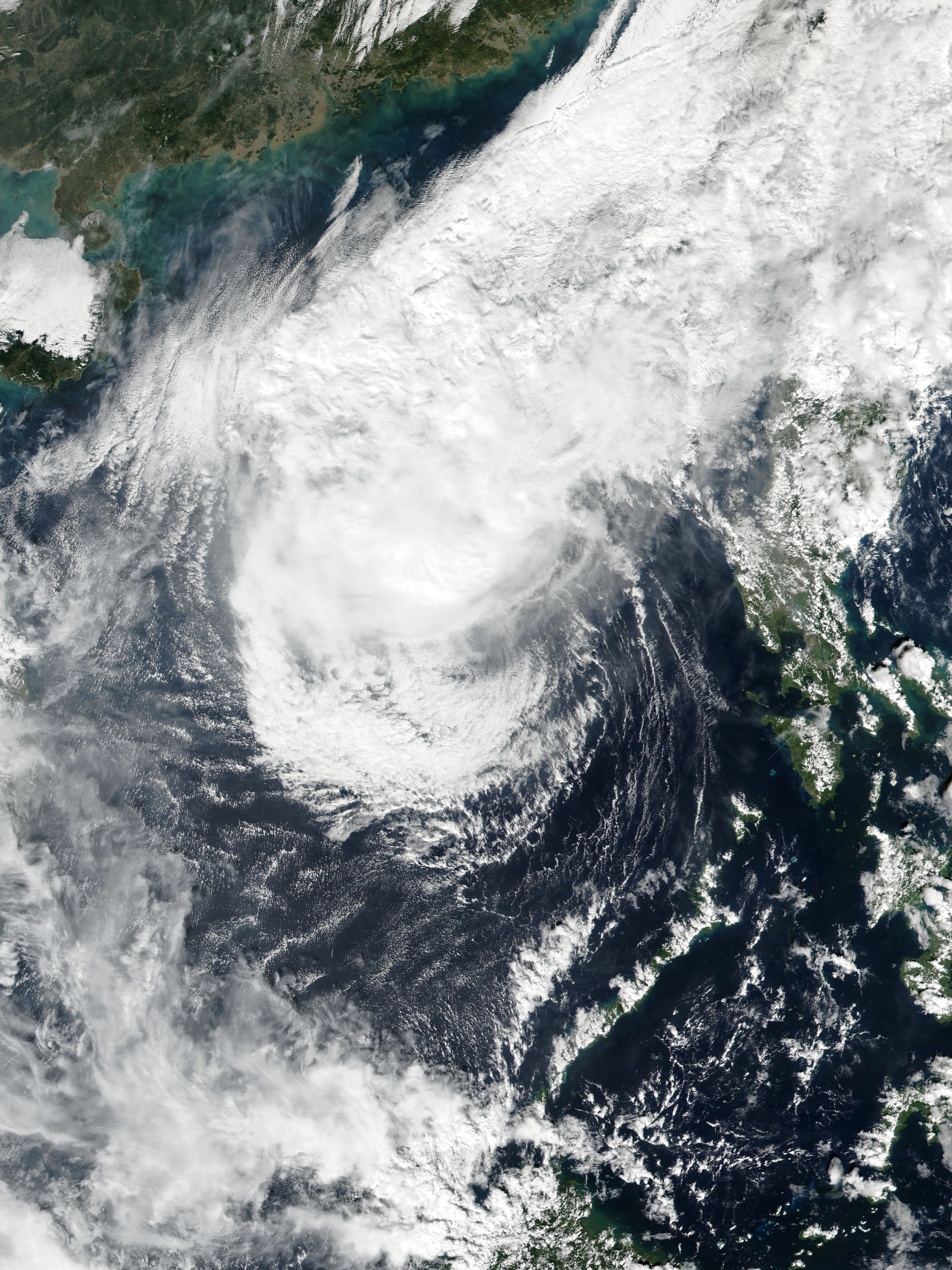 Severe Tropical Storm Nock-ten over the South China Sea on December 27, 2016.